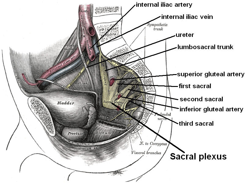 (labeled) Relations of the sacral plexus.